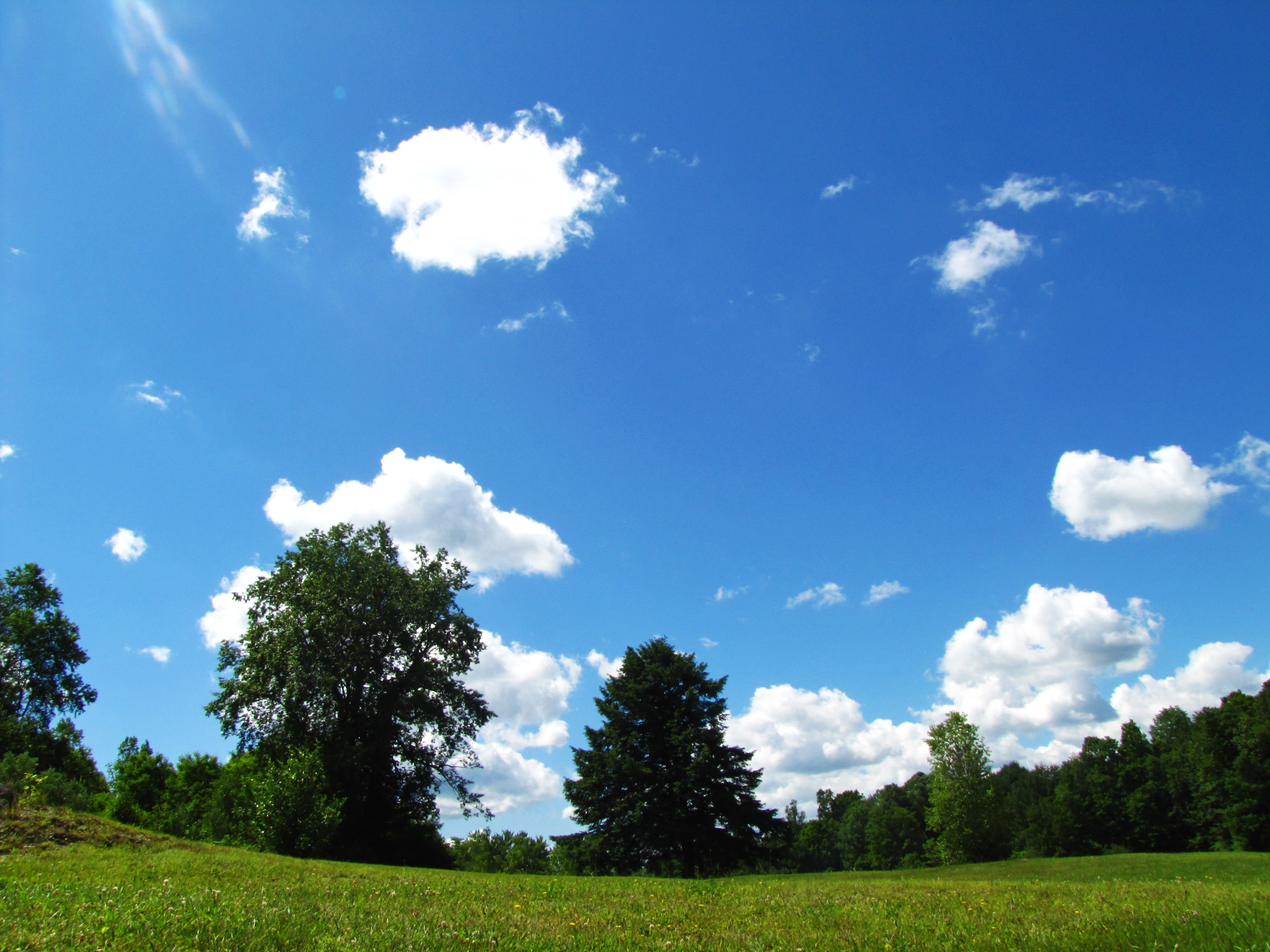 A typical looking blue sky.